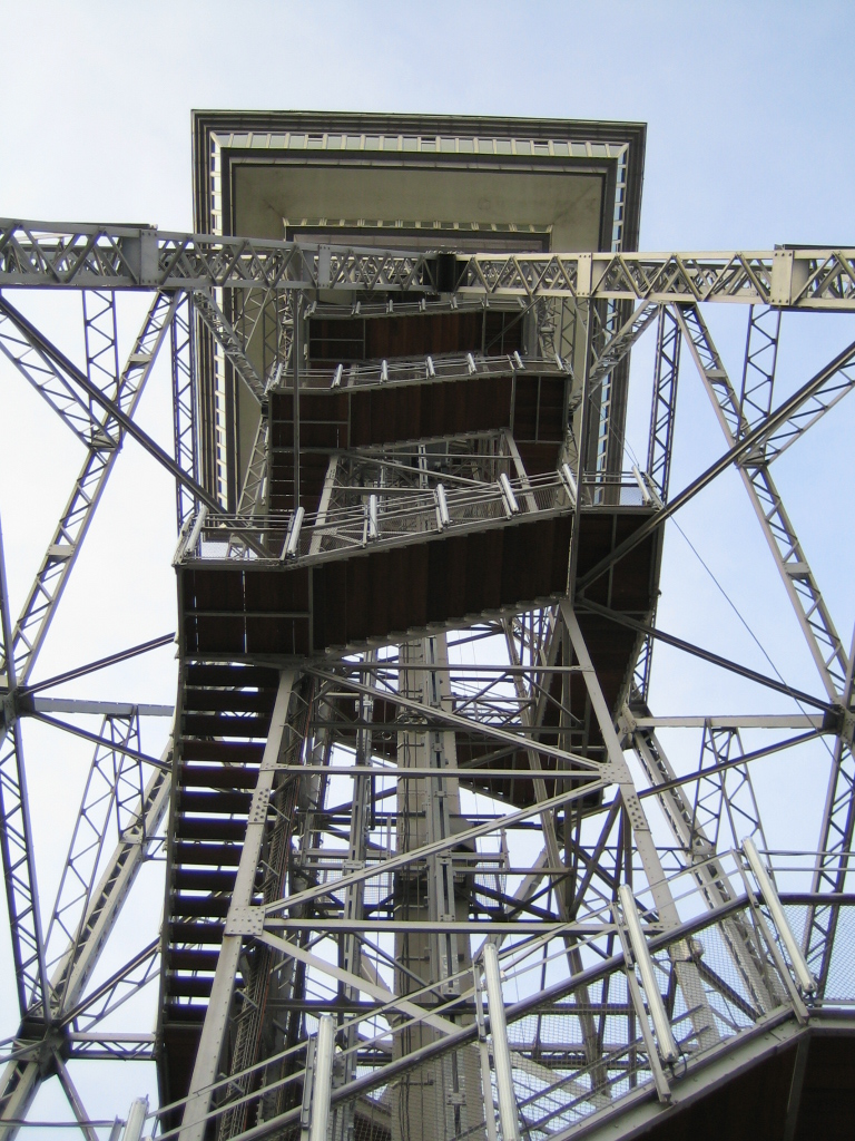 "Berlin Funkturm"